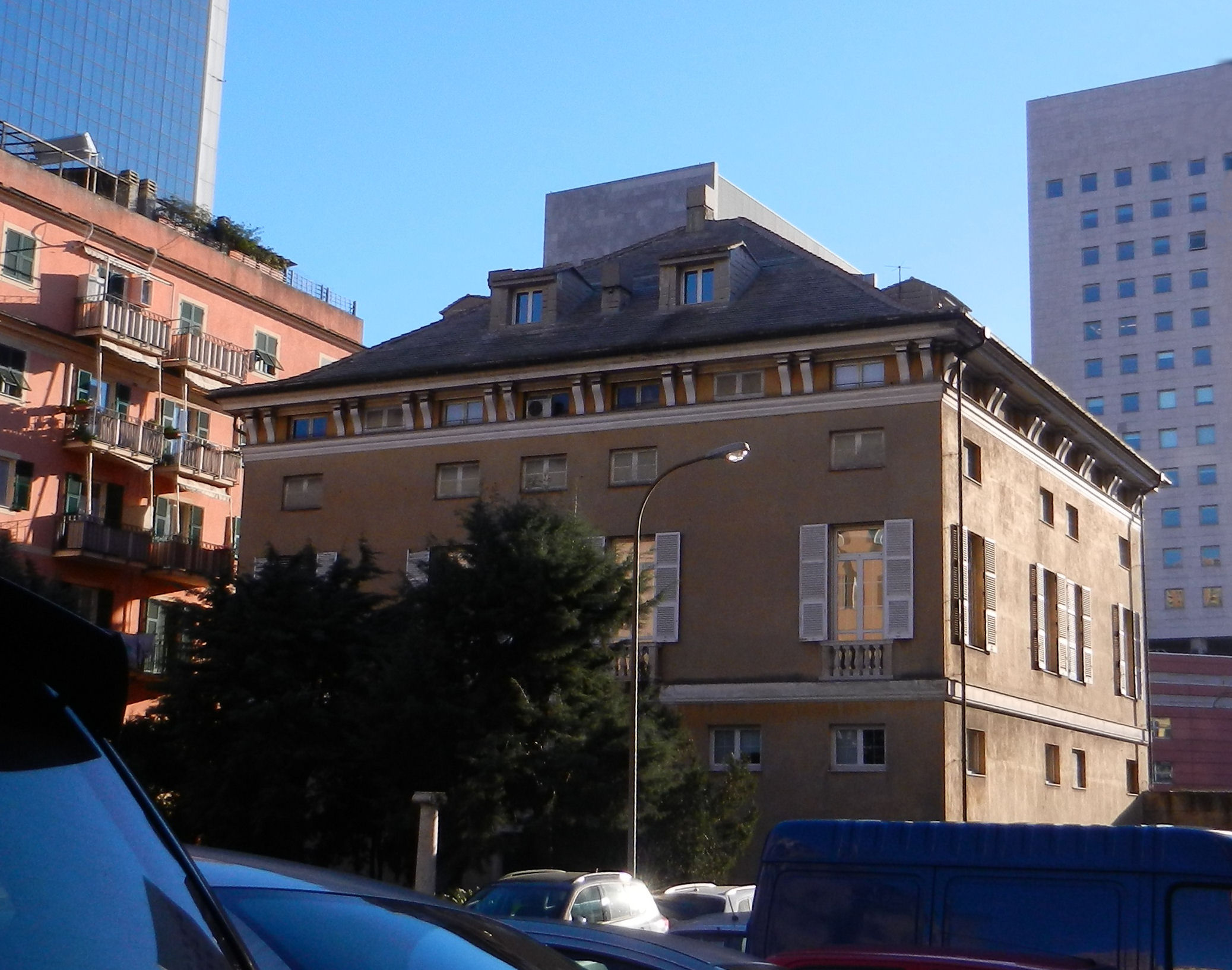 Genoa, Italy, quarter of Sampierdarena, villa Negrone Moro, rear front